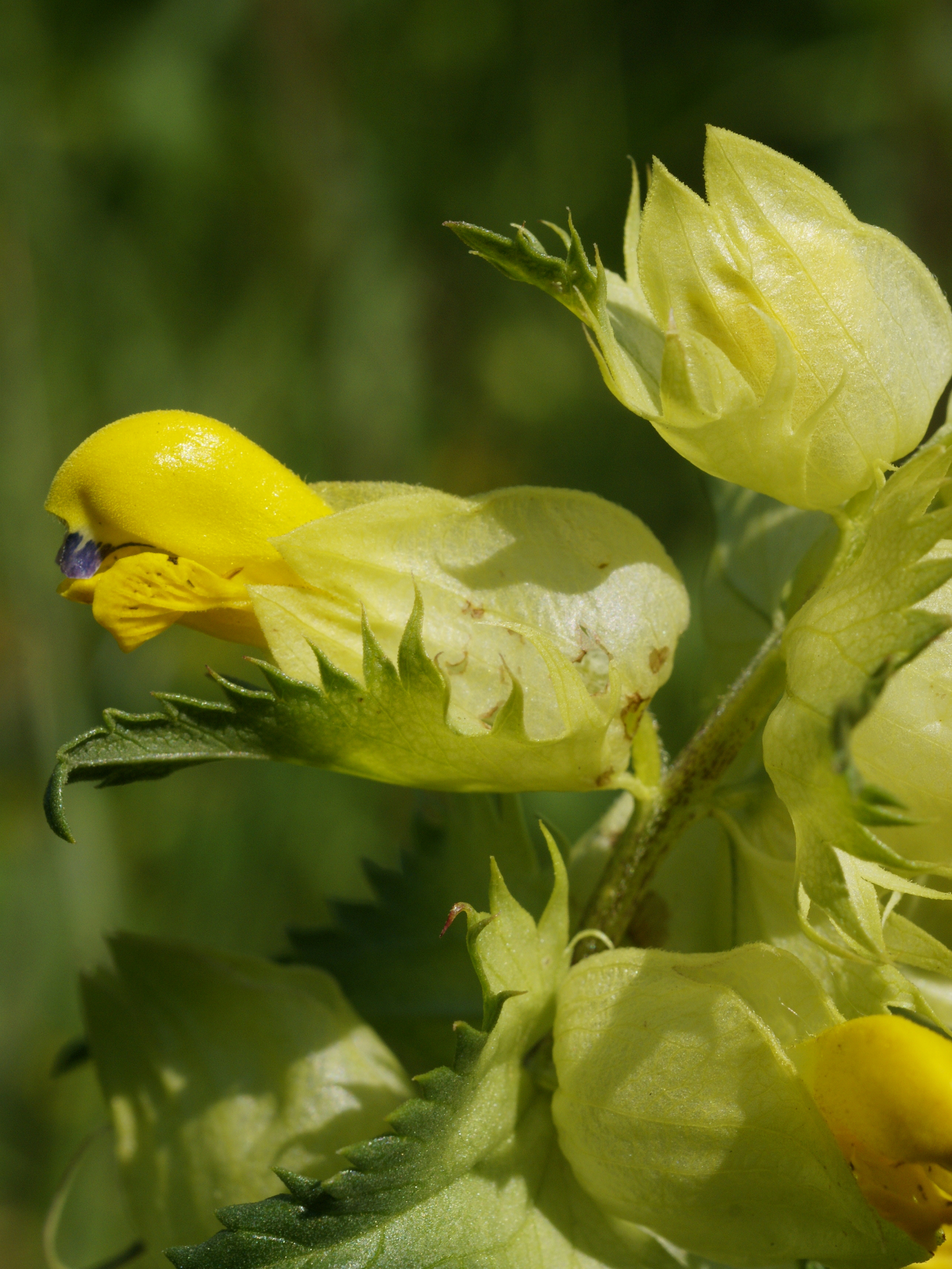 Greater Yellow-rattle inflorescence at Leiemeersen, Oostkamp, Belgium